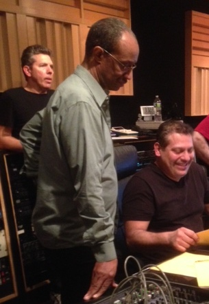 (l-r) Andy McKee, Douglas Purviance, Luis Bonilla, and Michael Marchione listening to playback at Systems II Recording Studio in Brooklyn NY on April 4th, 2014 for Mists: Charles Ives for Jazz Orchestra CD.